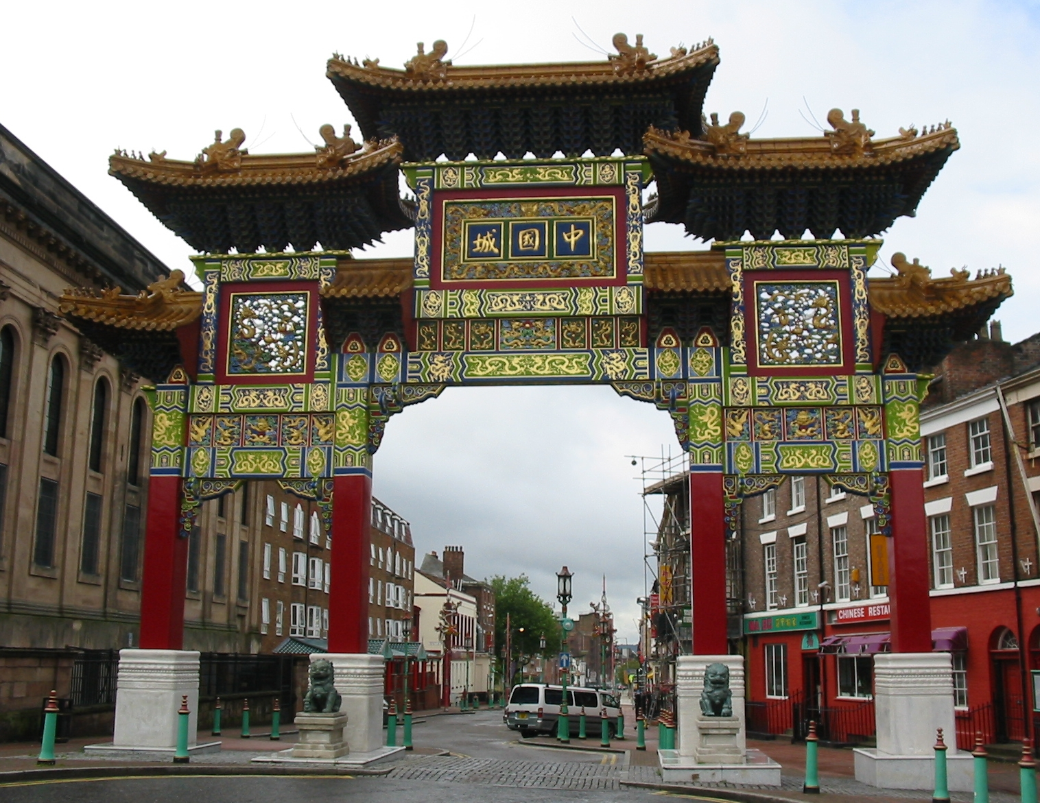 Liverpool